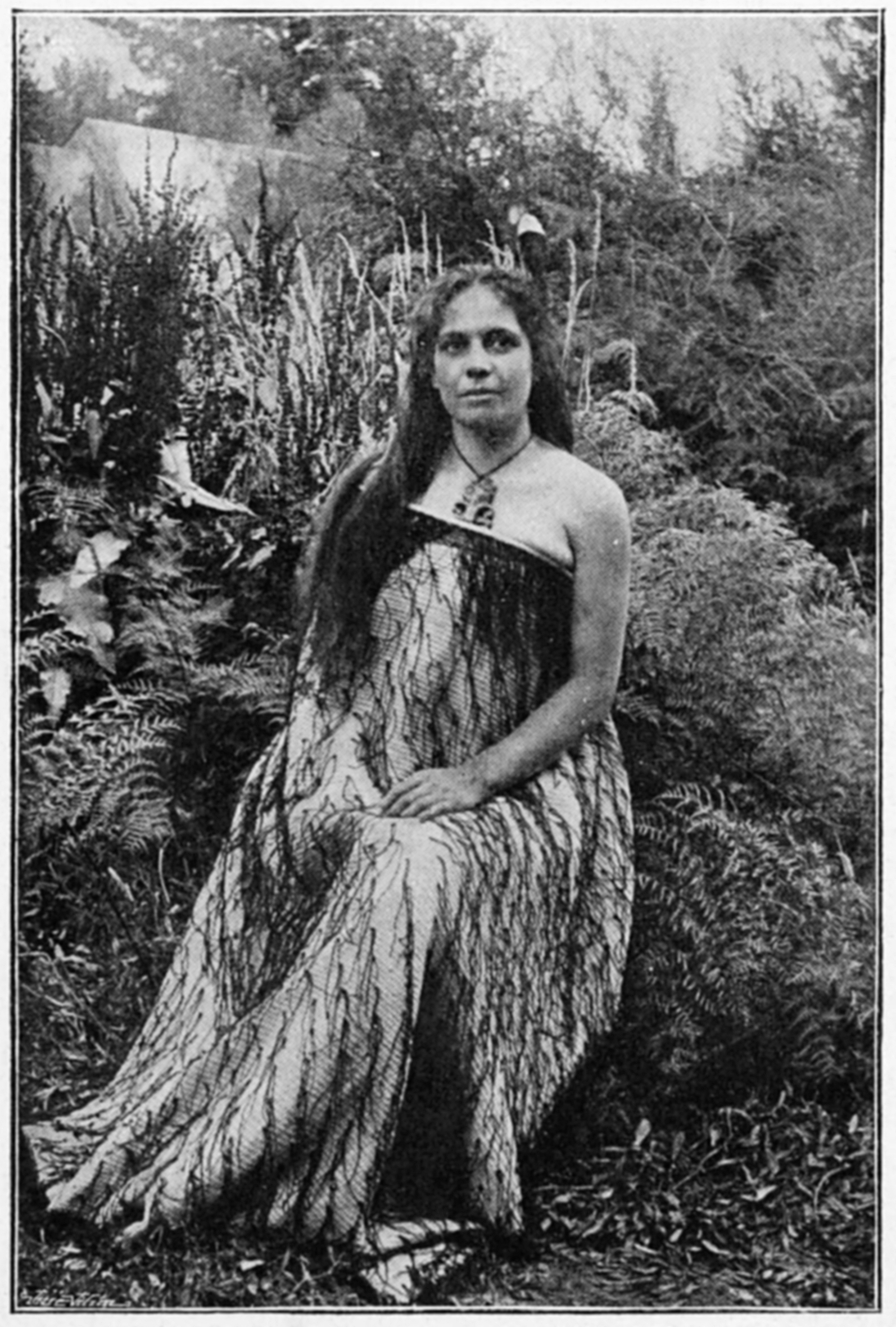 "Megi Papakura" known in New Zealand as Mākereti (Maggie) Papakura, a Māori tourist guide at Whakarewarewa hot springs in New Zealand. An illustration to a Czech-language travelogue Obrazy z jižní polokoule ("Pictures from the Southern Hemisphere"), chapter II. Mezi Maory ("Among the Māori")